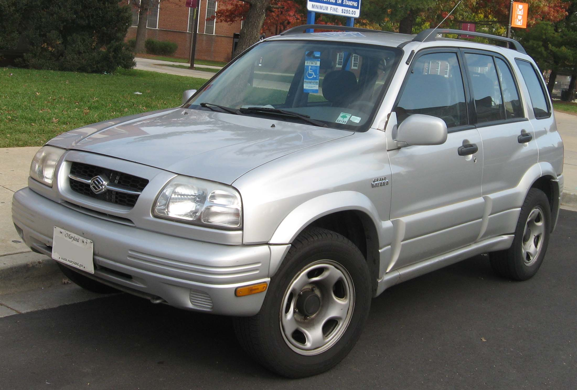 1999-2001 Suzuki Grand Vitara photographed in College Park, Maryland, USA.